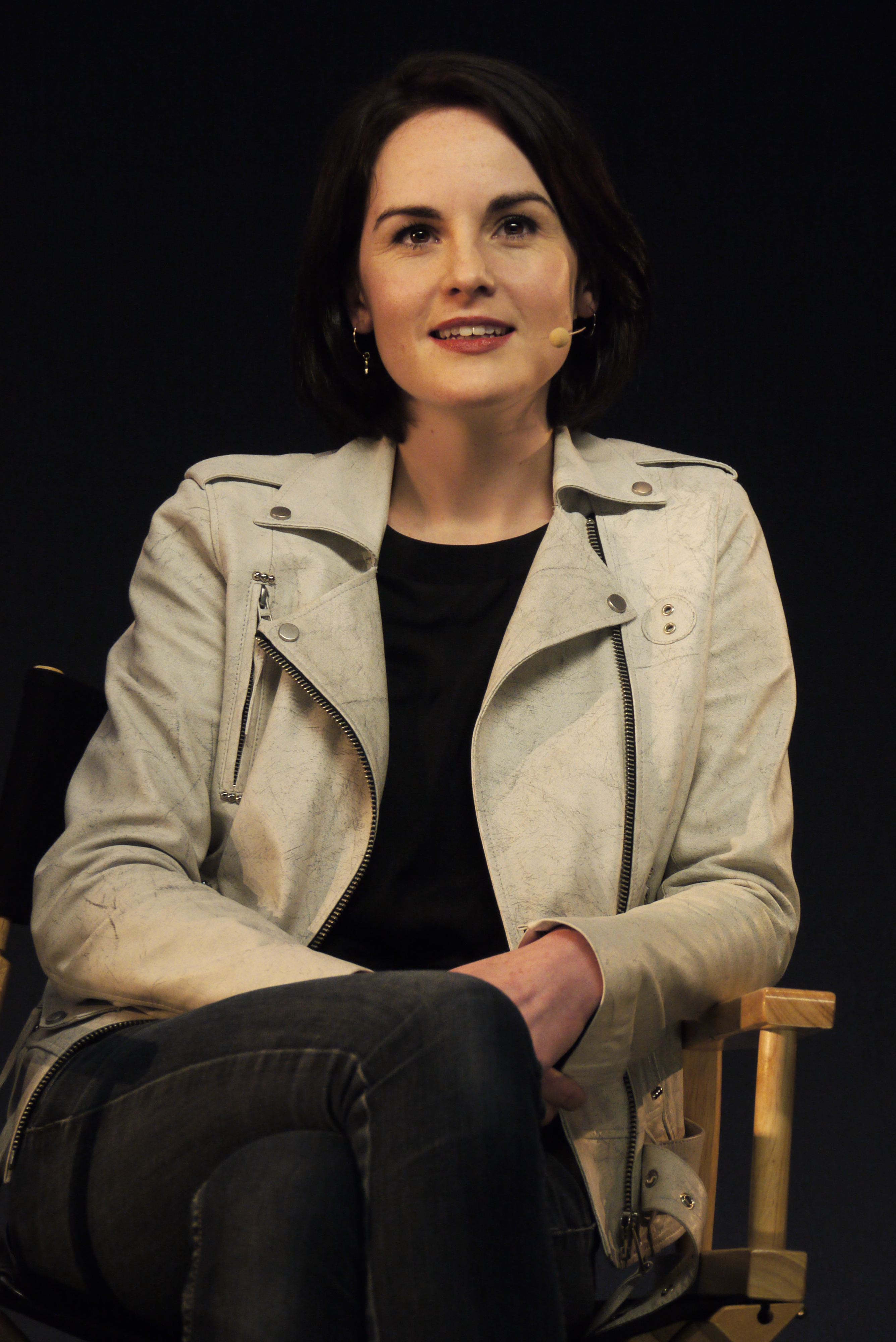 Michelle Dockery at a publicity event promoting Downton Abbey, 2013.